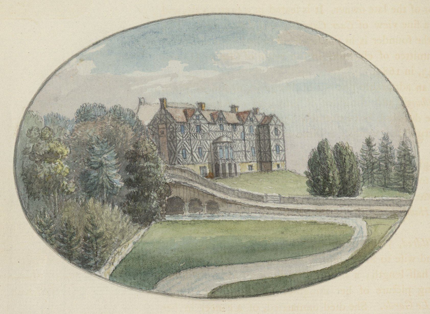 An image from a set of 8 extra-illustrated volumes of A tour in Wales by Thomas Pennant (1726-1798) that chronicle the three journeys he made through Wales between 1773 and 1776. These volumes are unique because they were compiled for Pennant's own library at Downing. This edition was produced in 1781. The volumes include a number of original drawings by Moses Griffiths, Ingleby and other well known artists of the period. Thomas Pennant (1726-1798)